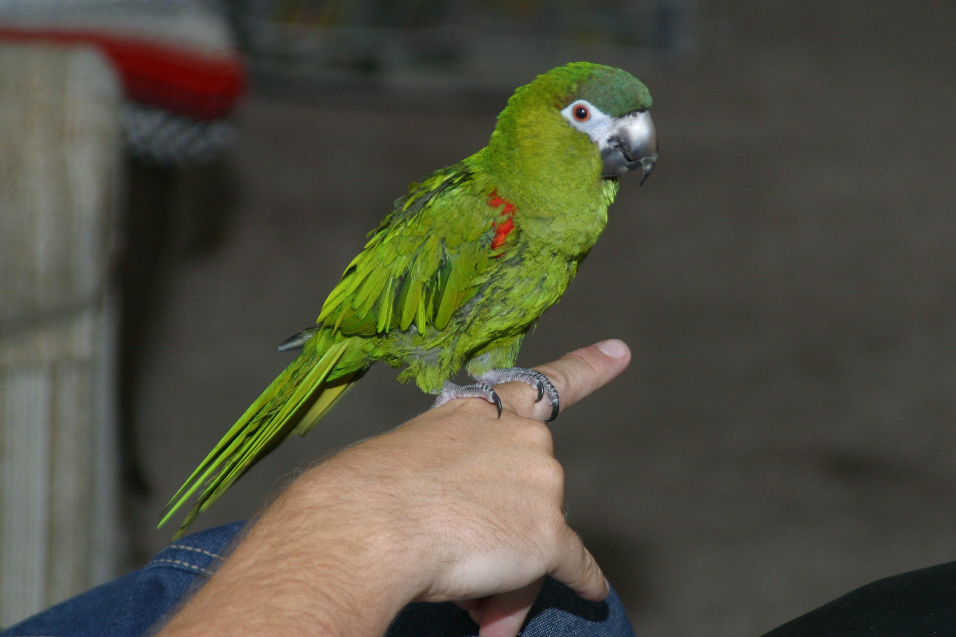 Red-shouldered Macaw (Diopsittaca nobilis) also known as the Noble macaw, Long-wing macaw or Hahn's macaw. Pet perching on a finger.